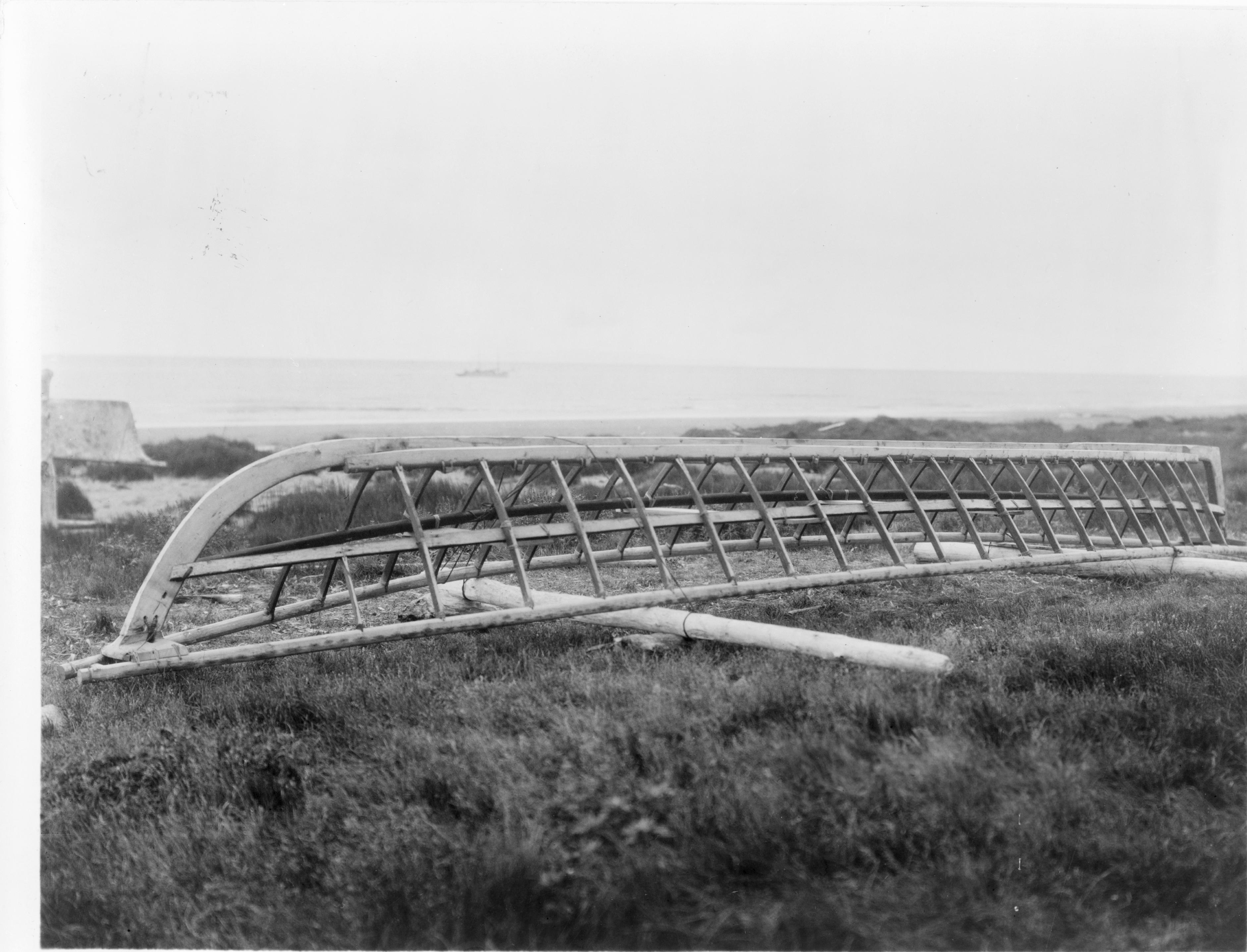 Umiak frame, Kotzebue This JPG file made from the LOC TIFF file, borders cropped.